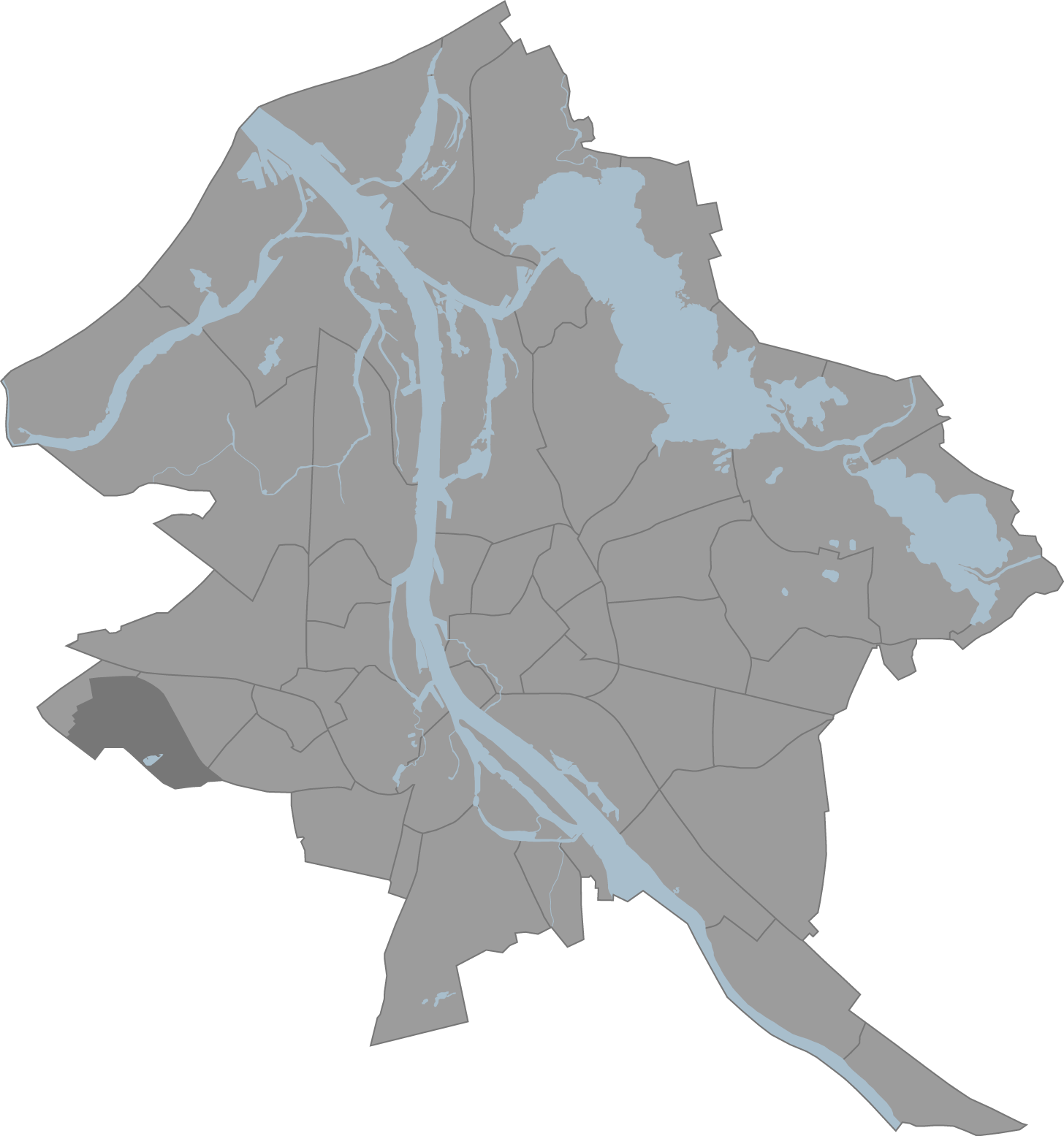 A map of Riga, Latvia with the eponymous commune highlighted